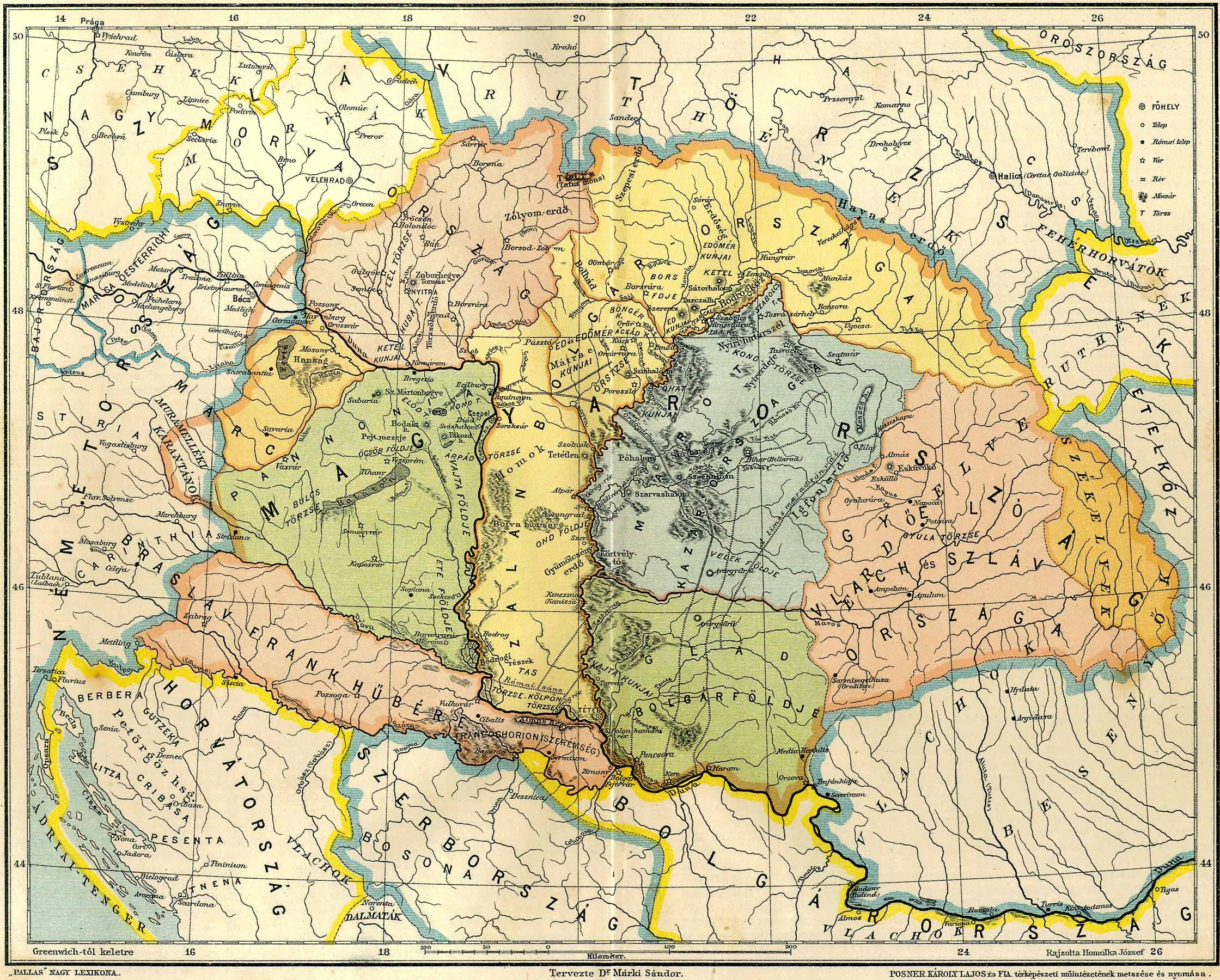 Map of Central Europe in the 9th century before arrival of Hungarians. It reflects data from Gesta Hungarorum chronicle (interpretation of the data is provided by Hungarian historian Dr. Márki Sándor, who is author of this map). Map show medieval duchies of Braslav, Salan (Zalan), Glad, Menumorut (Marót) and Gelou (Gyelo), as well as neighboring countries and territories.